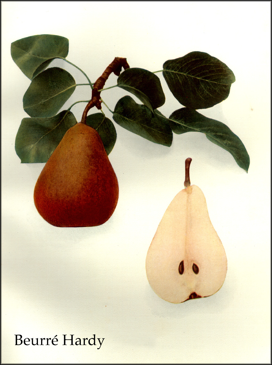 A colour plate from The Pears of New York (1921) depicting the Beurré Hardy pear cultivar.